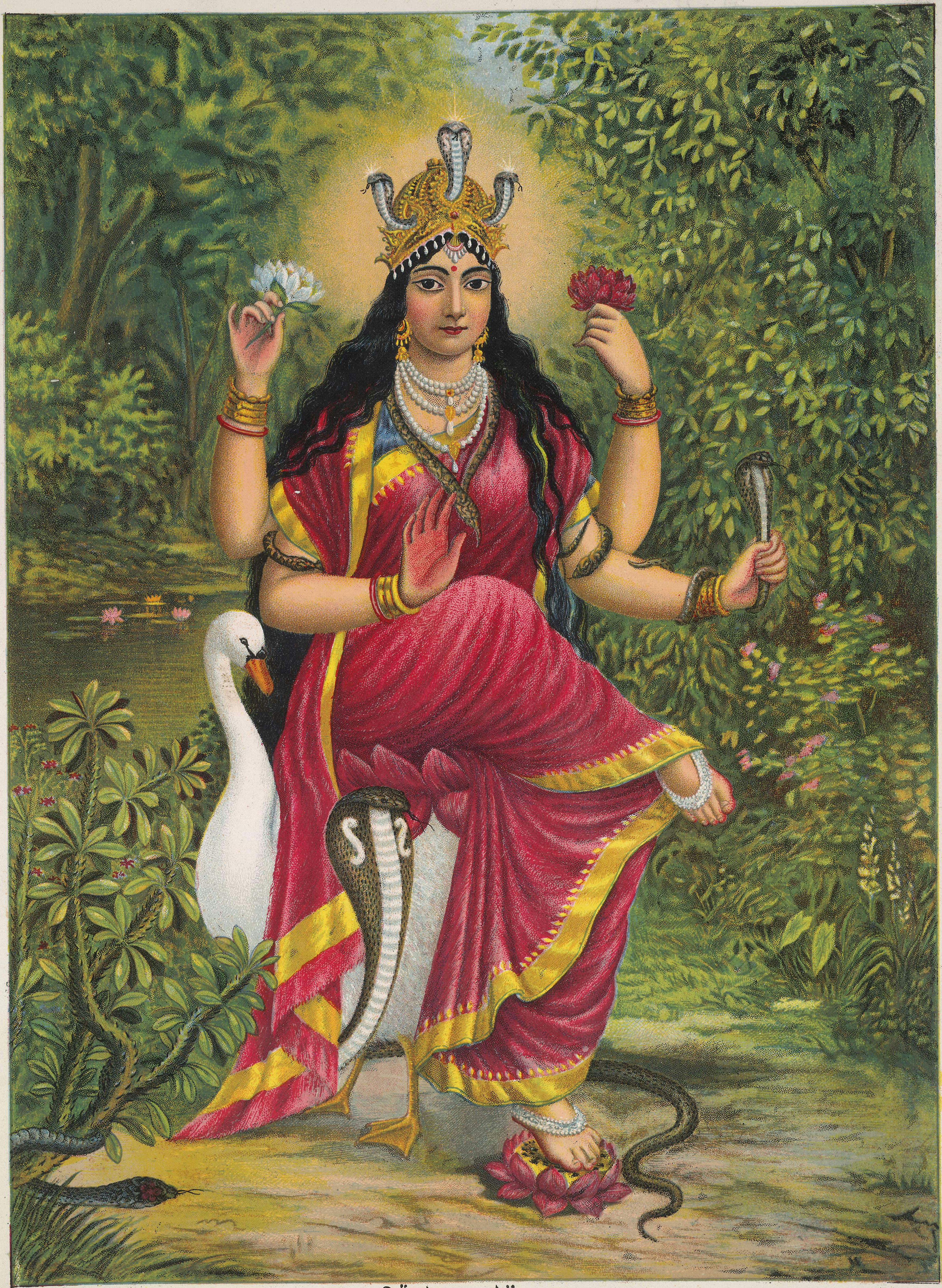 "Album of popular prints mounted on cloth pages. Colour lithograph, lettered, inscribed and numbered 33. The goddess Manasā in a dense jungle landscape with snakes, seated on a swan and with her left foot resting on a lotus flower."